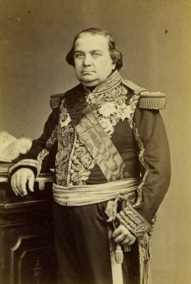 Photograph of Admiral Charles Rigault de Genouilly